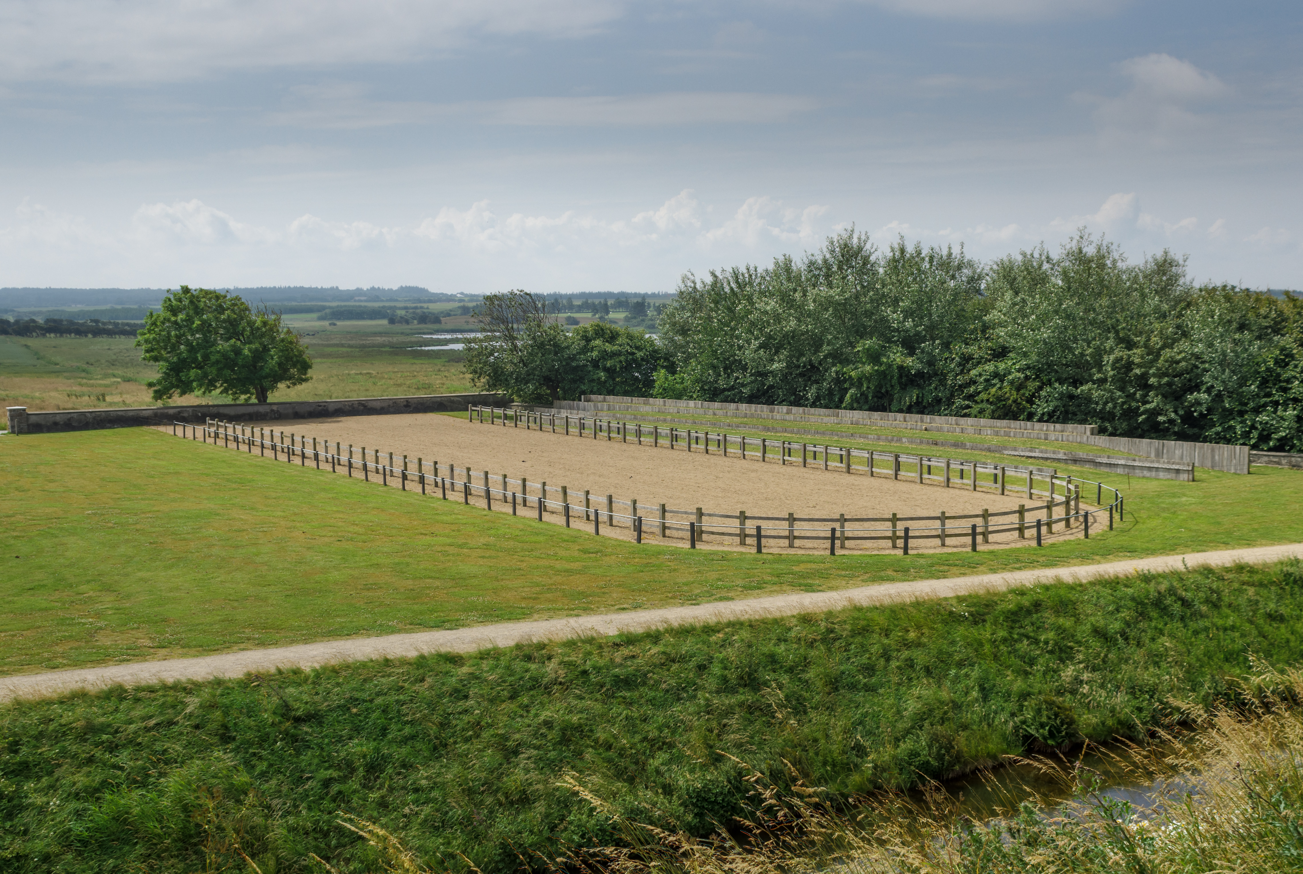 The tournament course at Spøttrup Castle as seen from the embankment surrounding the castle